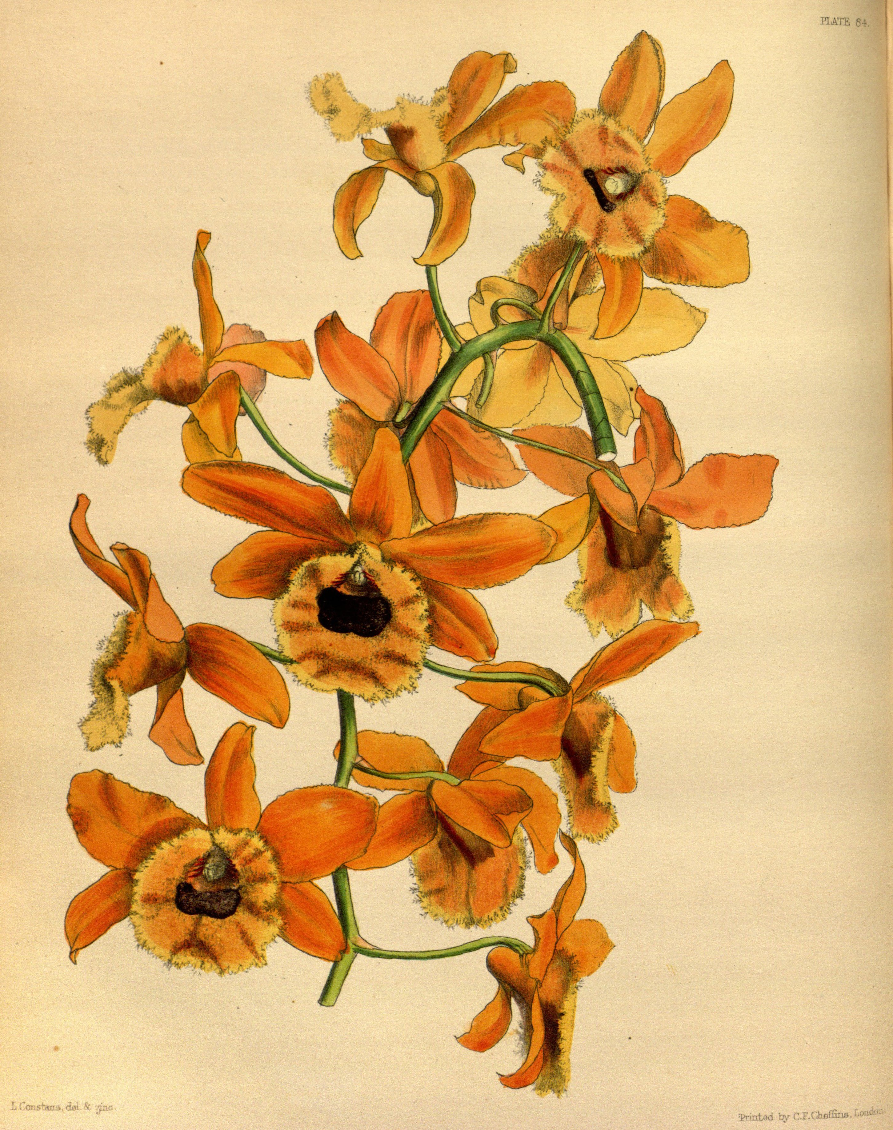 Dendrobium fimbriatum Hook., syn. Dendrobium fimbriatum var. oculatum Hook.